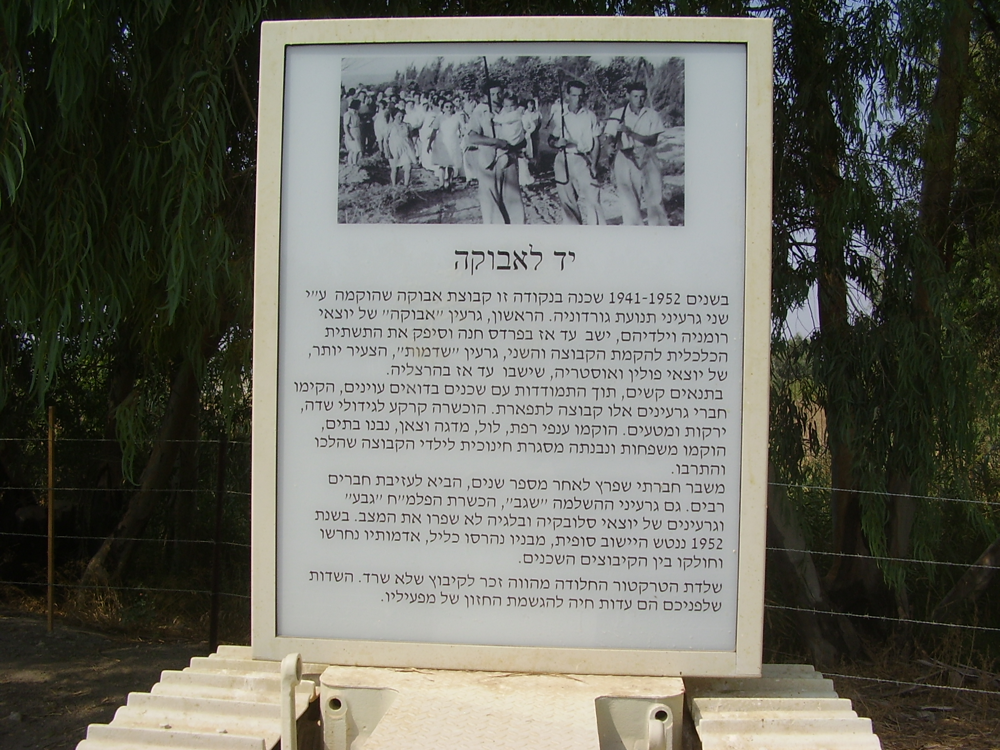 kibbutz avuka memorial אנדרטה לקיבוץ אבוקה